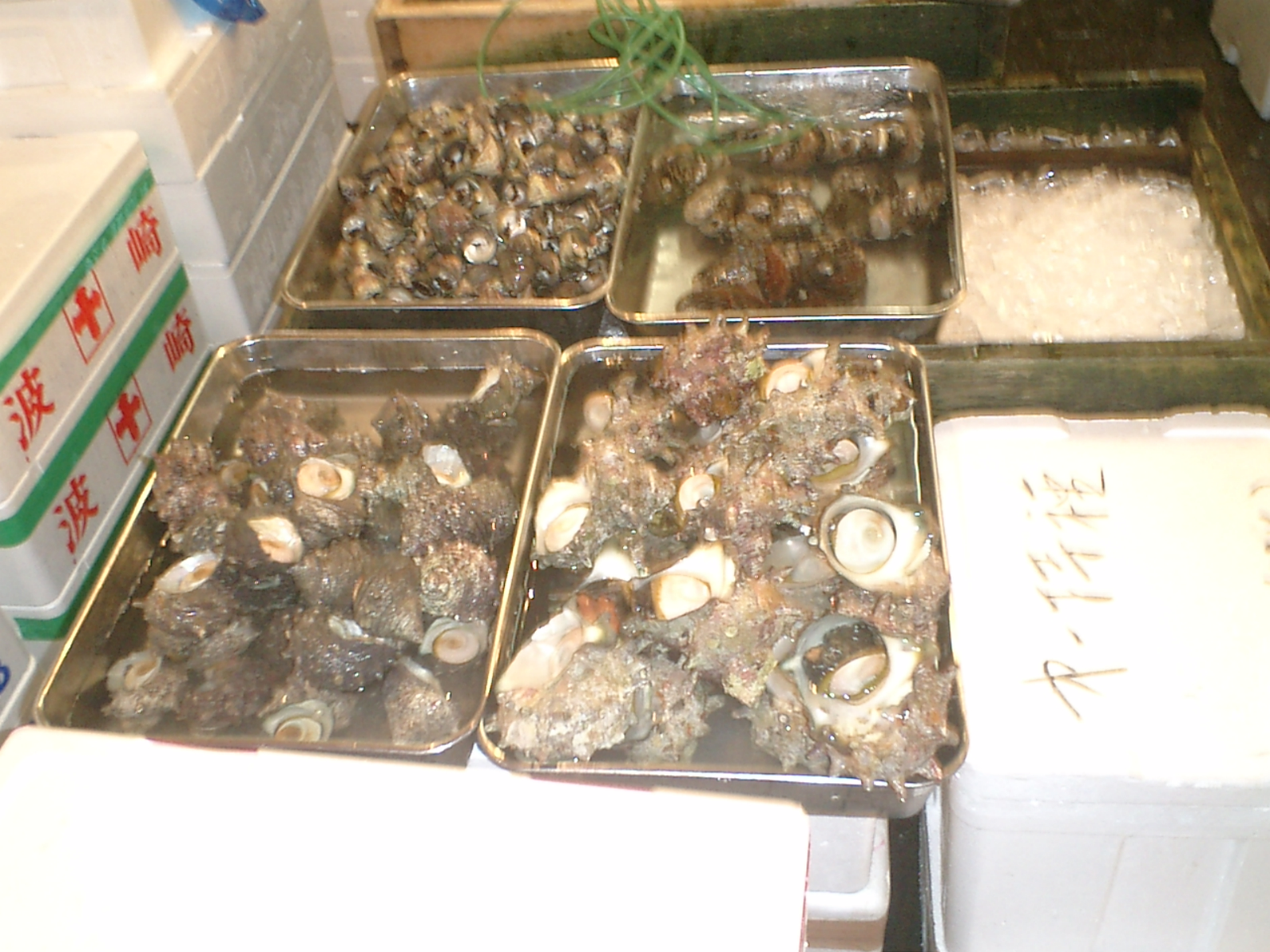 Tsukiji fish market in Tokyo, Japan